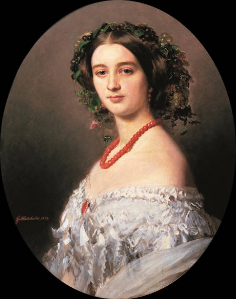 Portrait of Malcy Berthier de Wagram, Princesse Murat (1832-84)